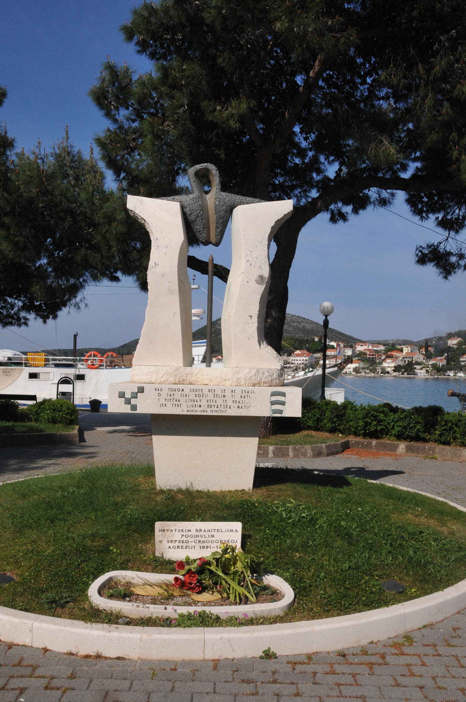 MONUMENT TO THE CROATIANS WHO DIED DURING THE CONFLICT IN 1991 WHEN JNA (YUGOSLAVA PEOPLES ARMY) SHELLED SLANO. IT WAS PART OF THE SIEGE OF DUBROVNIK